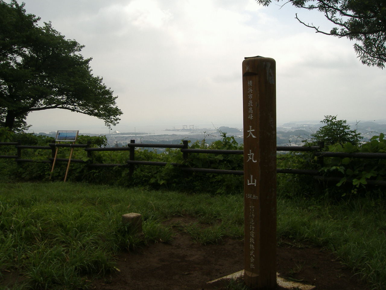 Oomaruyama (Yokohama, Japan)